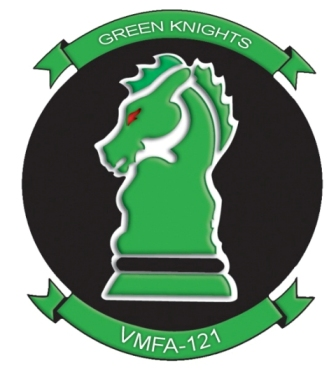 Insignia of Marine Fighter Attack Squadron 121, The Green Knights.